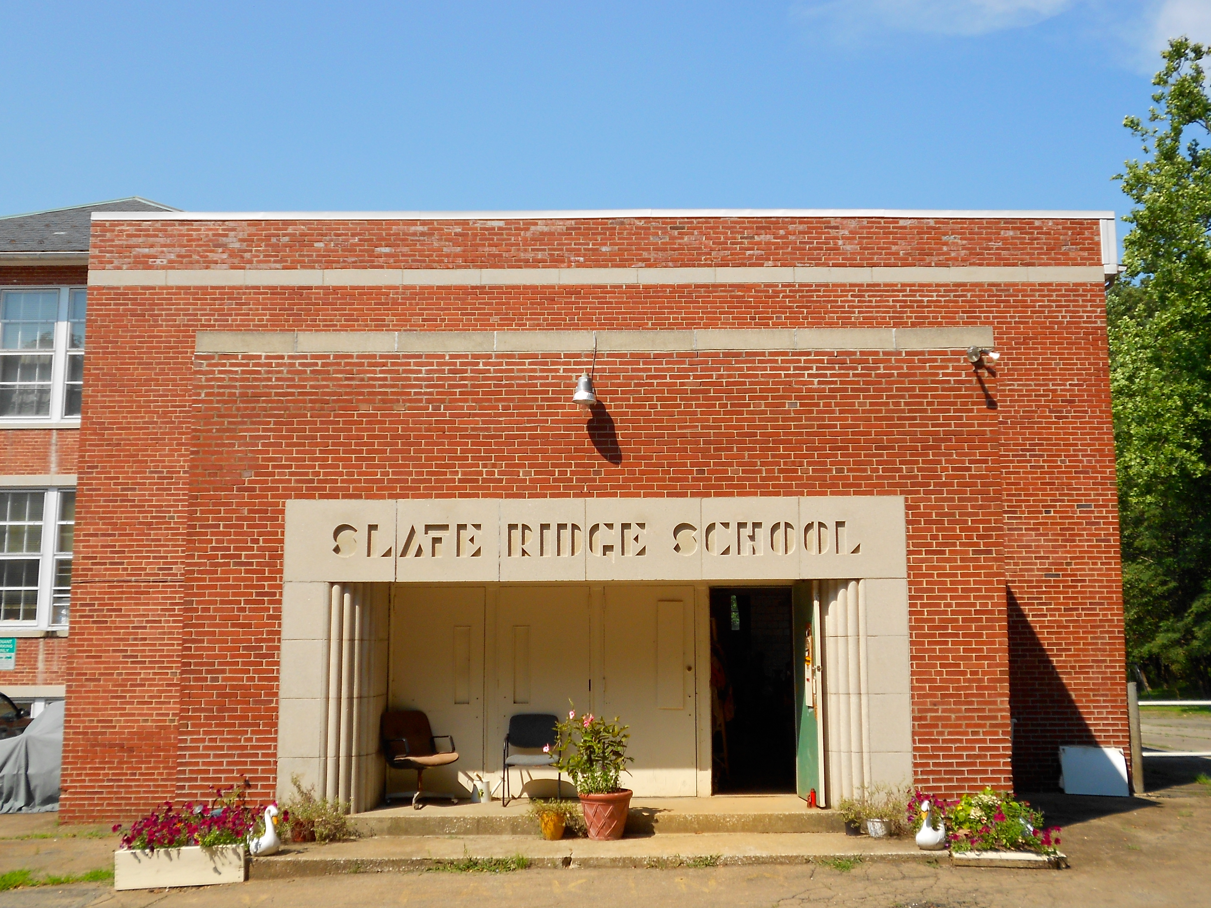 Art Deco gym or meeting hall attached to older Slate Ridge School (now an apartment building - with this building being a workout center). Listed as Slate Ridge School by the NRHP on July 16, 1987. Located on Old Pylesville Rd. (and Whitford or Main Street?) Whiteford, Maryland. Though it is separately listed as above, it is also part of the Whiteford-Cardiff Historic District, which was listed on the NRHP on November 15, 2005. The historic district includes Whiteford Rd., Platted Parry St., and Quarry Rd., west of Main St.